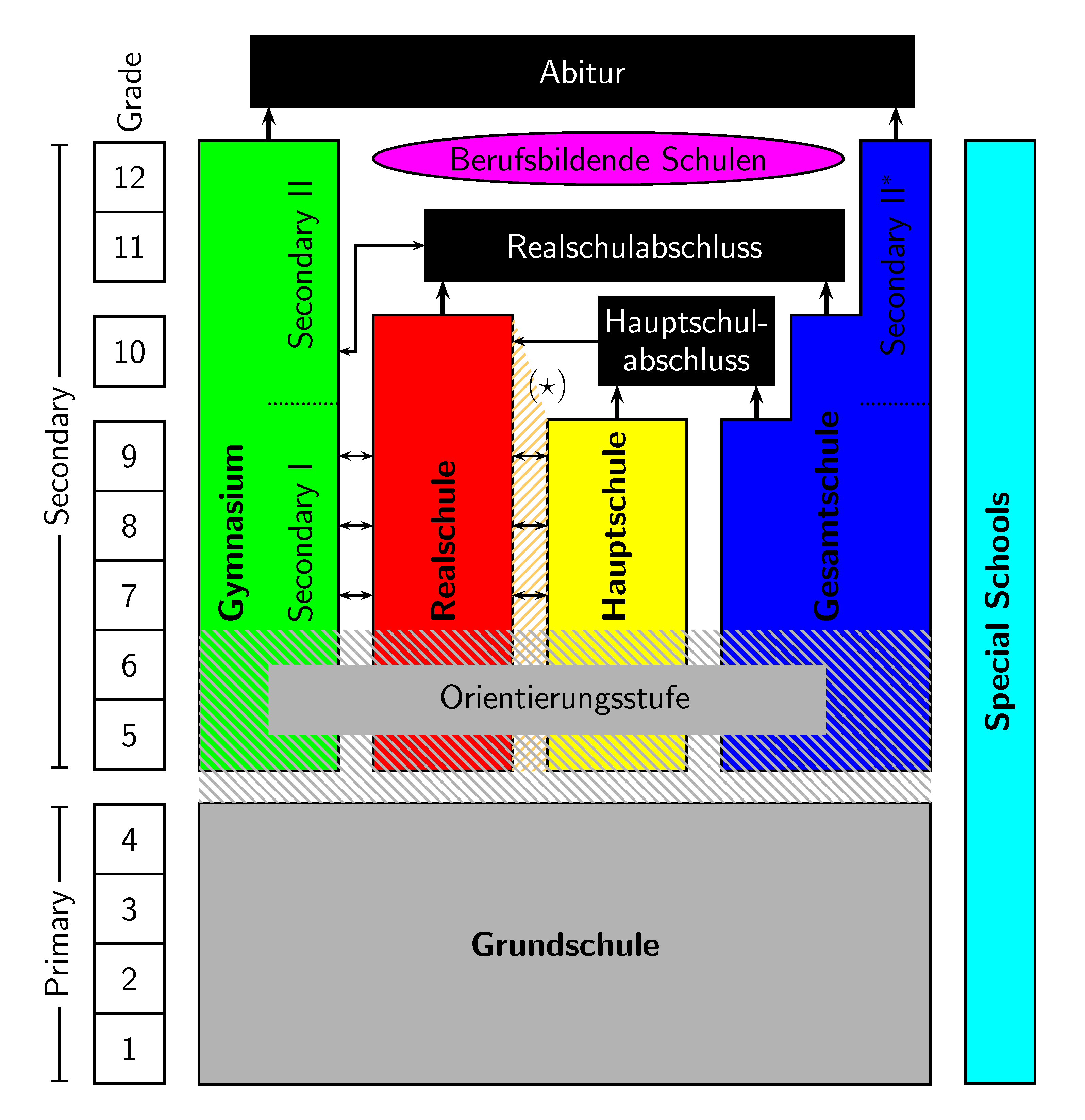 Diagram showing the German school system. It includes the streaming school types (Gymnasium, Realschule, Hauptschule), the comprehensive school types (Grundschule, Gesamtschule), Special Schools and the three main educational levels to be reached (Abitur, Realschulabschluss, Hauptschulabschluss).